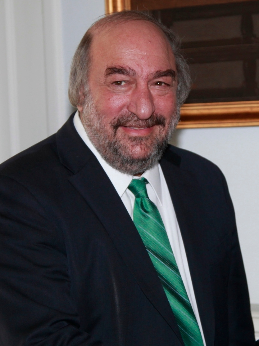 Giorgos Nikitiadis